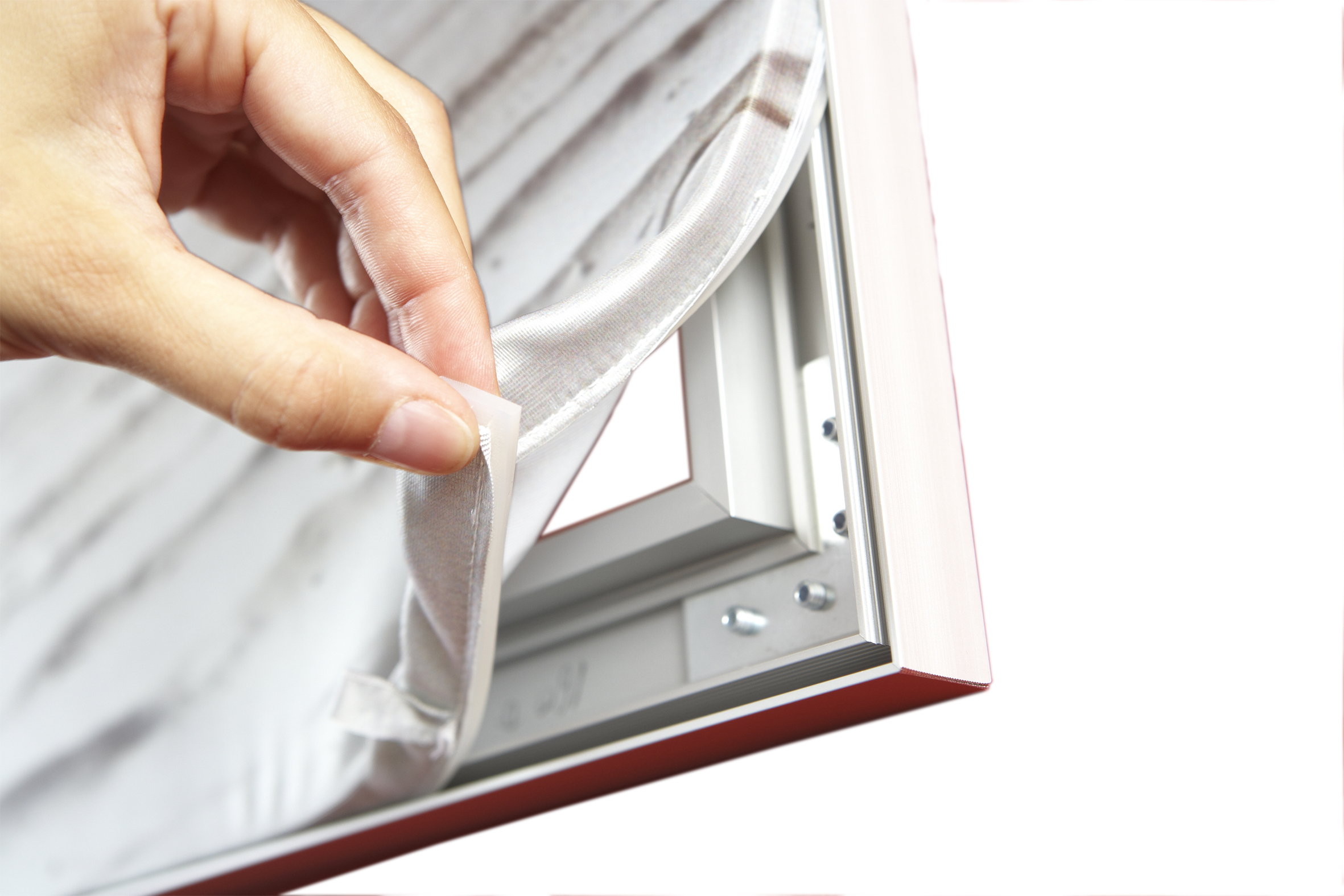 Detailansicht eines Textilspannrahmens.